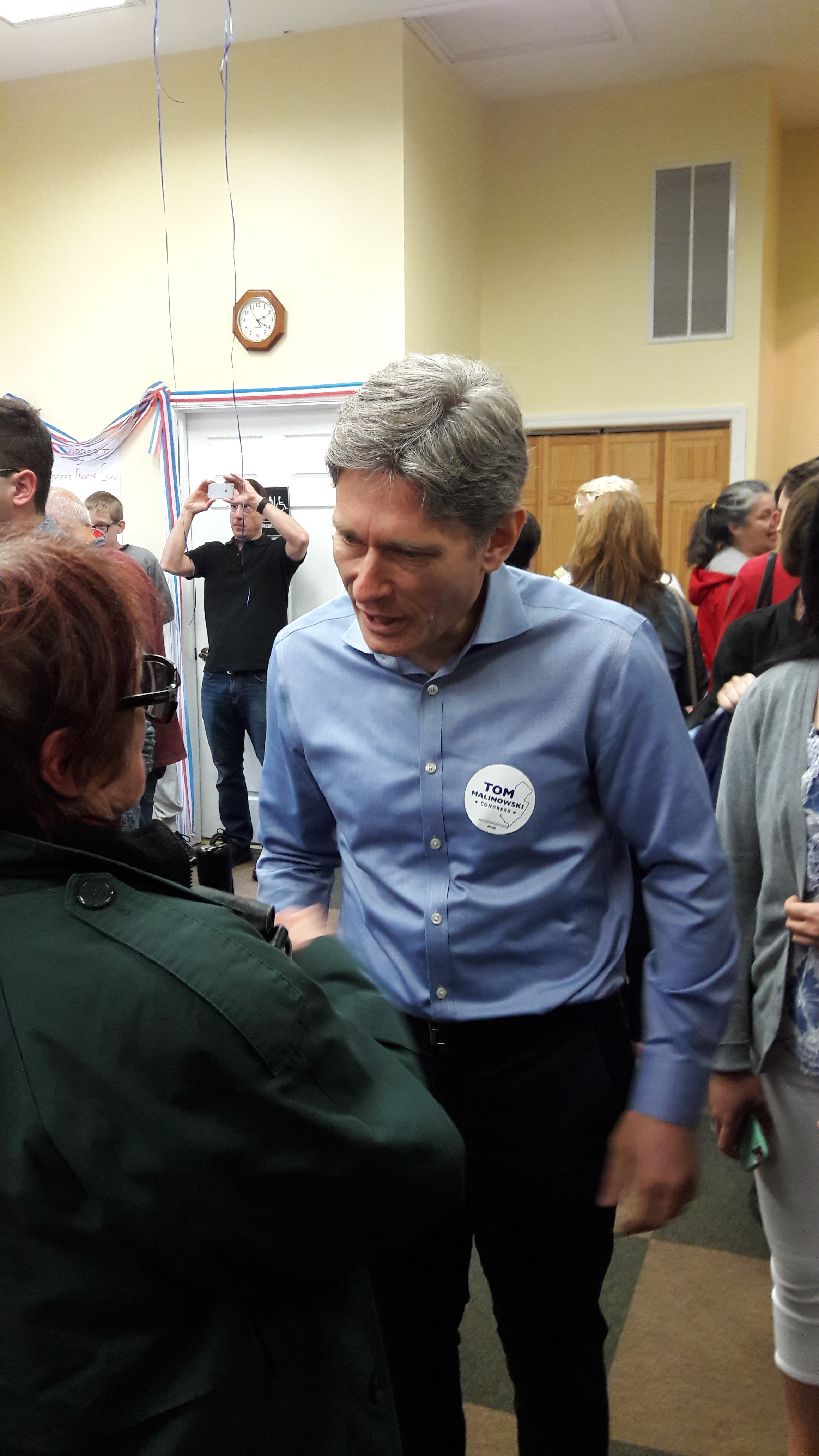 Congressional candidate Tom Malinowski meets with supporters at his campaign headquarters in Martinsville, New Jersey.